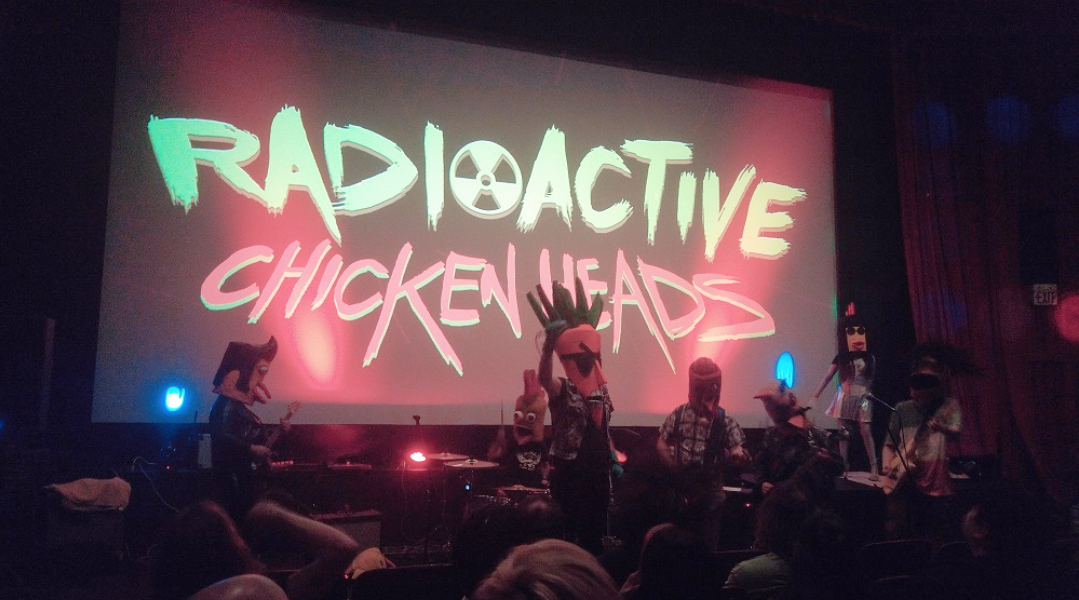 The Radioactive Chicken Heads performing in Santa Ana, California in 2016.